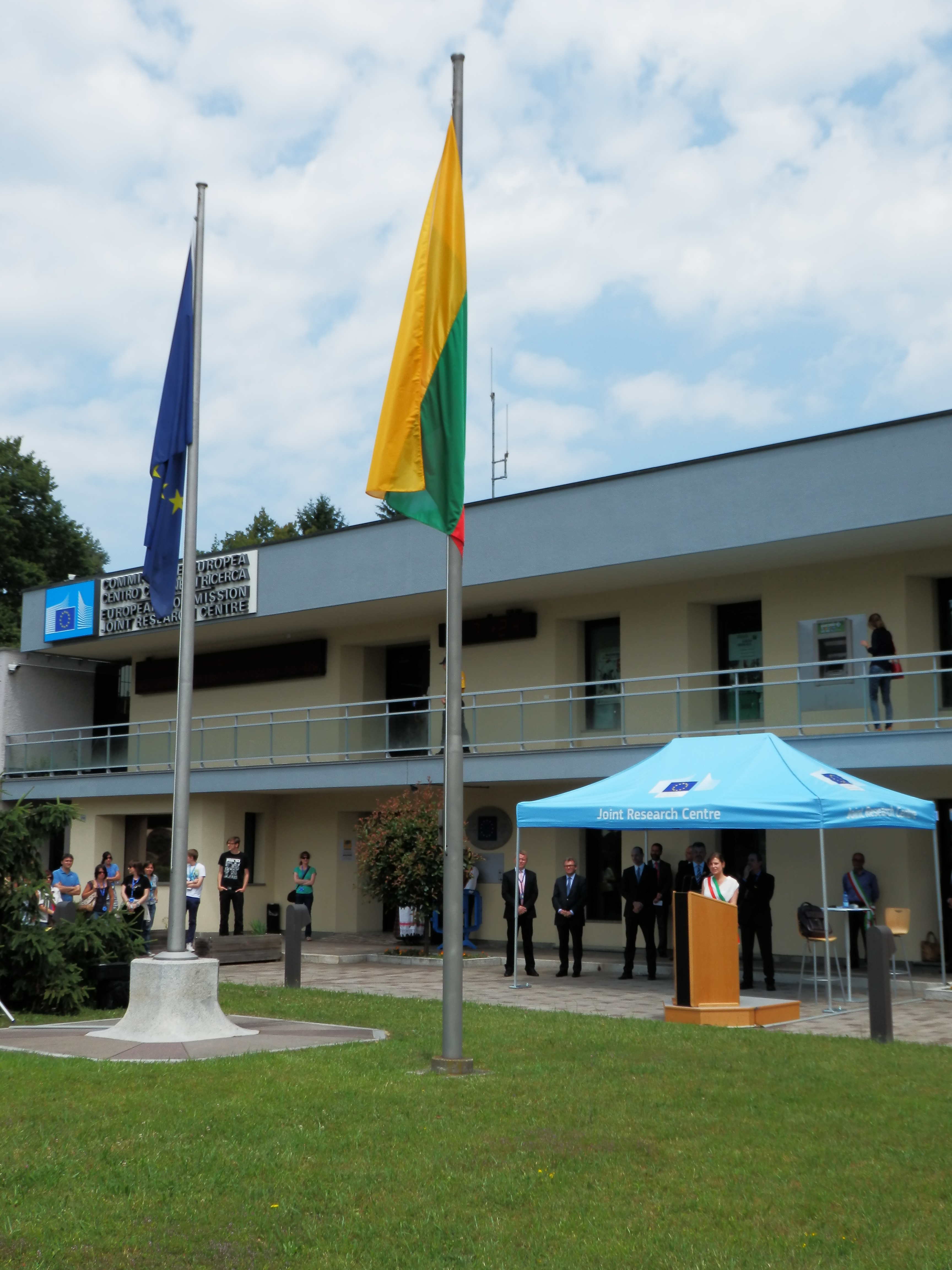 Lithuanian Presidency of the Council of the European Union - Opening Ceremony at JRC Ispra (VA)